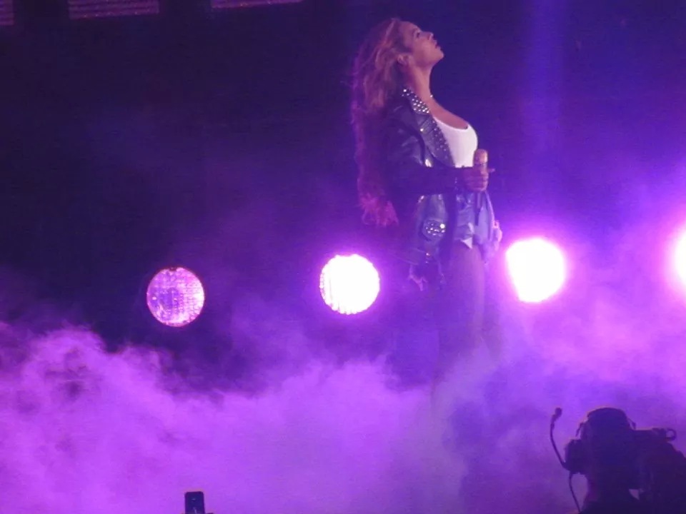 Beyoncé performing at Safeco Field in Seattle, Washington during her co-headlining "On the Run Tour" with Jay-Z, on July 31, 2014.